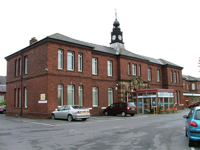 St. Luke's Hospital. Apparently due for replacement in 2009 but the clock tower will remain.